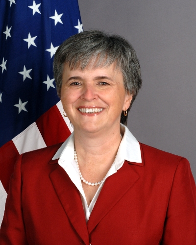 Carol A. Rodley. As of 2009, the U.S. Ambassador to Cambodia.